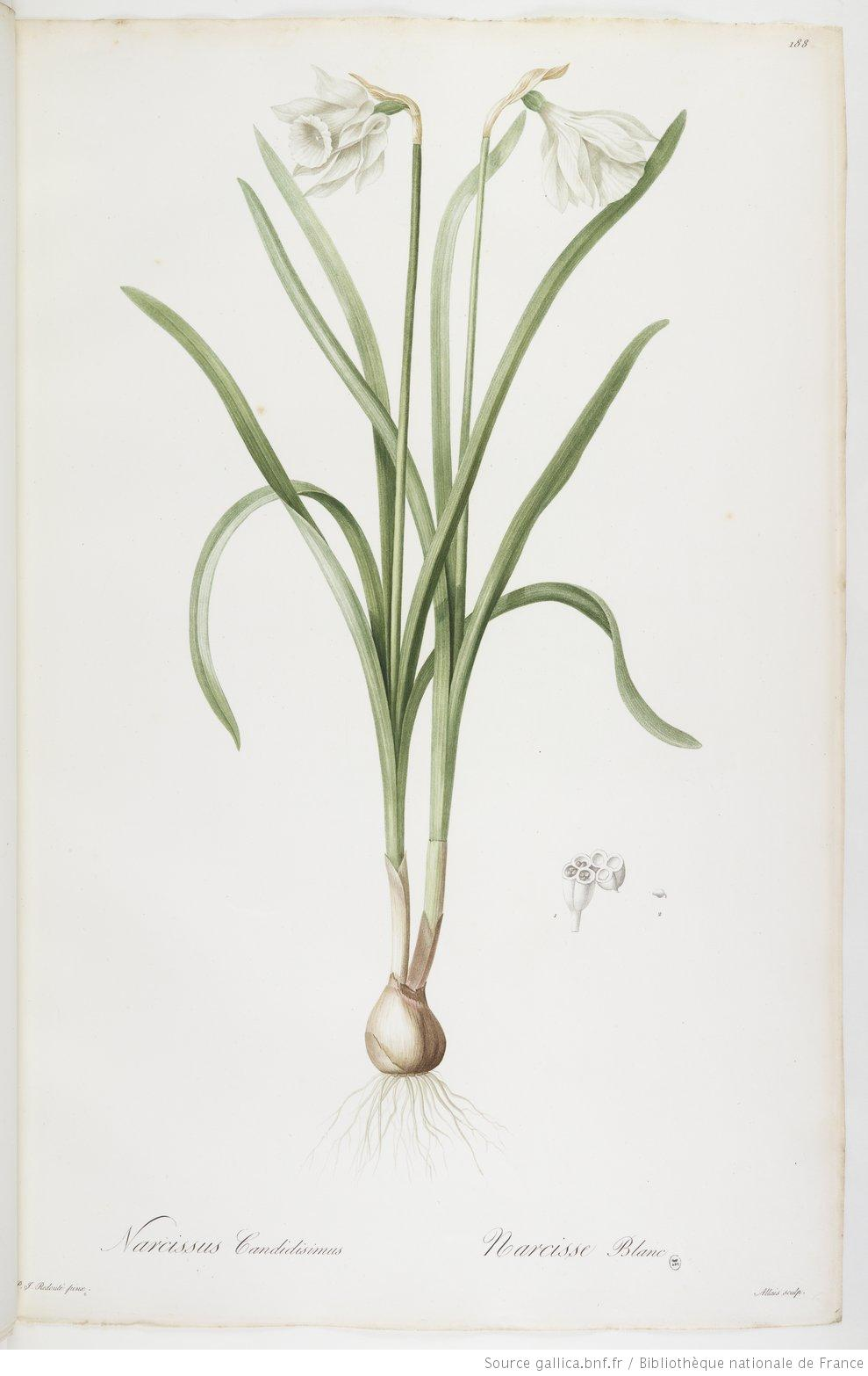 Narcissus candidissimus Desf. ( Narcissus pseudonarcissus subsp. moschatus (L.) Baker) by Pierre-Joseph Redouté (Les liliacees 1808, p. 188)